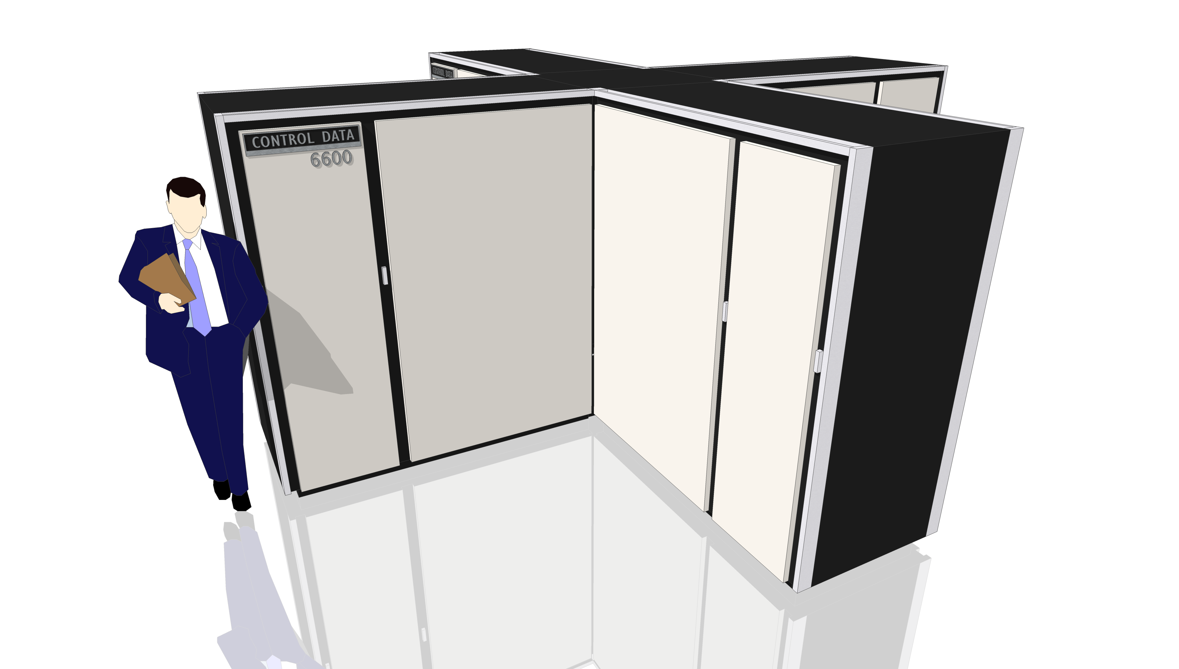 3D rendering of an overview of CDC 6600 supercomputer, designed by Seymour Cray, with a figure as scale.